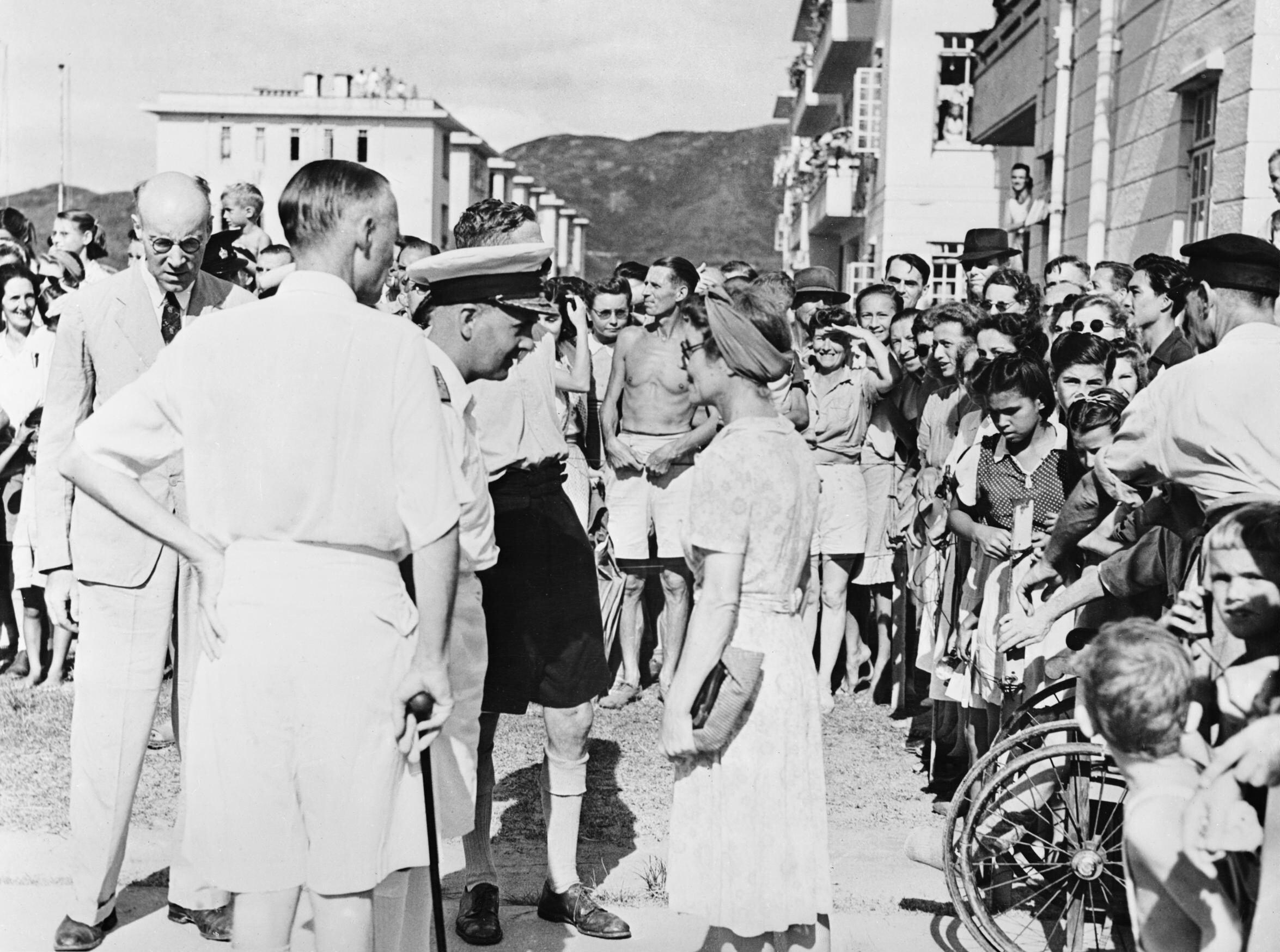 Hong Kong Re-occupied. 30 August 1945, Hong Kong, Before, during and After the Re-occupation of the Crown Colony. Internees crowd round their liberator, Rear Admiral C H J Harcourt, Commander of the British Task Force which entered Victoria Harbour, Hong Kong, the Admiral made it his first job to meet the people who had been under Japanese control for three and a half years. Here, he is talking with Miss C Franklin, former Matron of the British Naval Hospital.